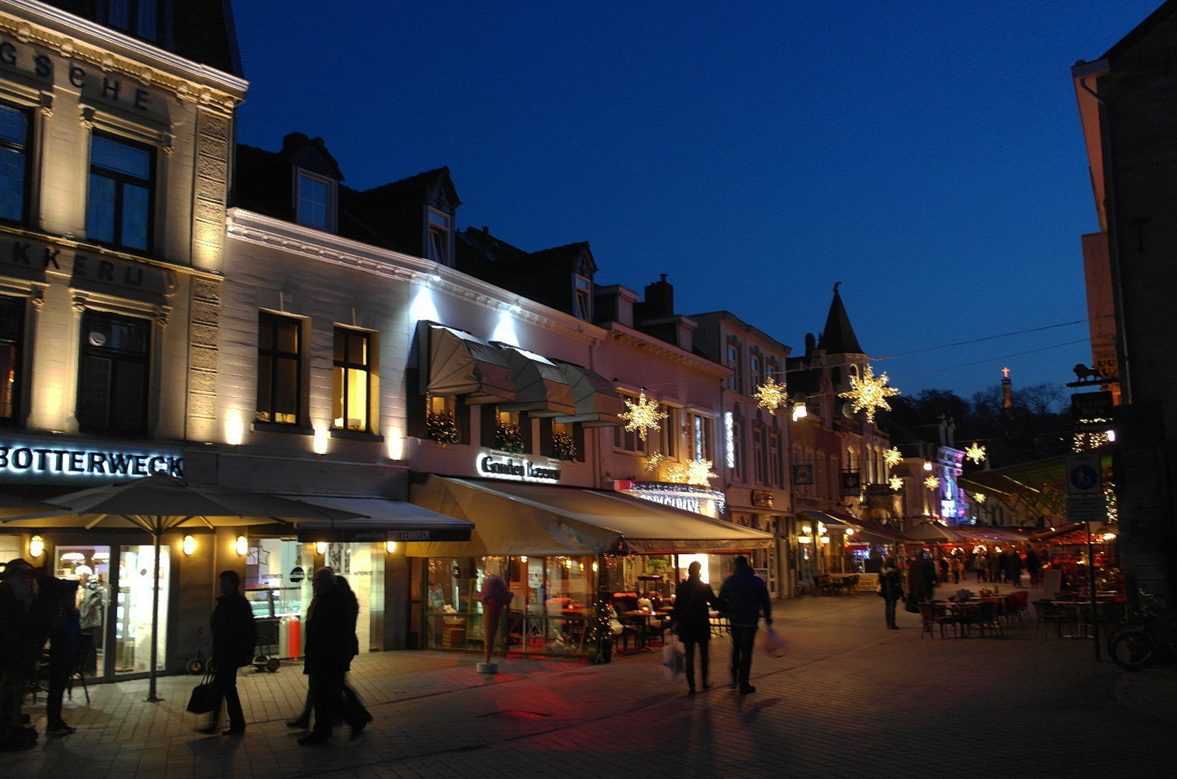 Valkenburg, Limburg, the Netherlands. Christmas lights in Grotestraat.